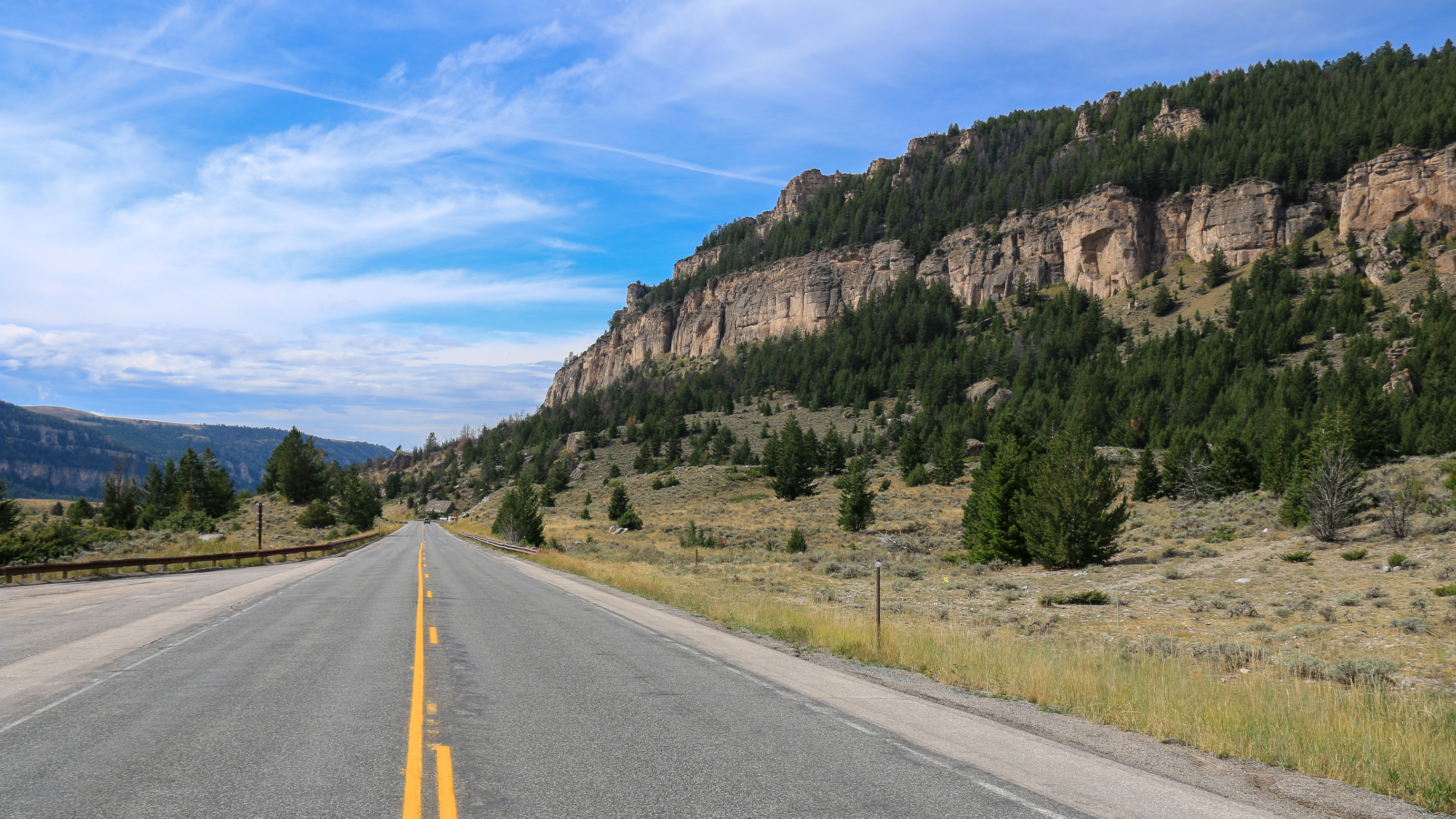 The U.S. Route 16 passing the Ten Sleep Canyon in the Bighorn Mountains